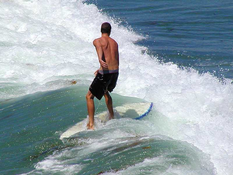 Surfing! ocean surfing waves water surfers